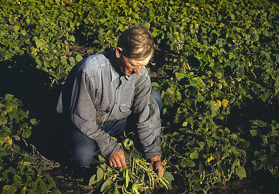 Lee, Russell,, 1903-, photographer. Bill Stagg turning up his beans, Pie Town, New Mexico. He will next pile them for curing 1940 Oct. 1 slide : color. Notes: Title from FSA or OWI agency caption. Transfer from U.S. Office of War Information, 1944. Subjects: Beans Homesteading United States--New Mexico--Pie Town Format: Slides--Color Repository: Library of Congress, Prints and Photographs Division, Washington, D.C. 20540 USA, Part Of: Farm Security Administration - Office of War Information Collection 11671-24 (DLC) 93845501 General information about the FSA/OWI Color Photographs is available at Persistent URL: Call Number: LC-USF35-332